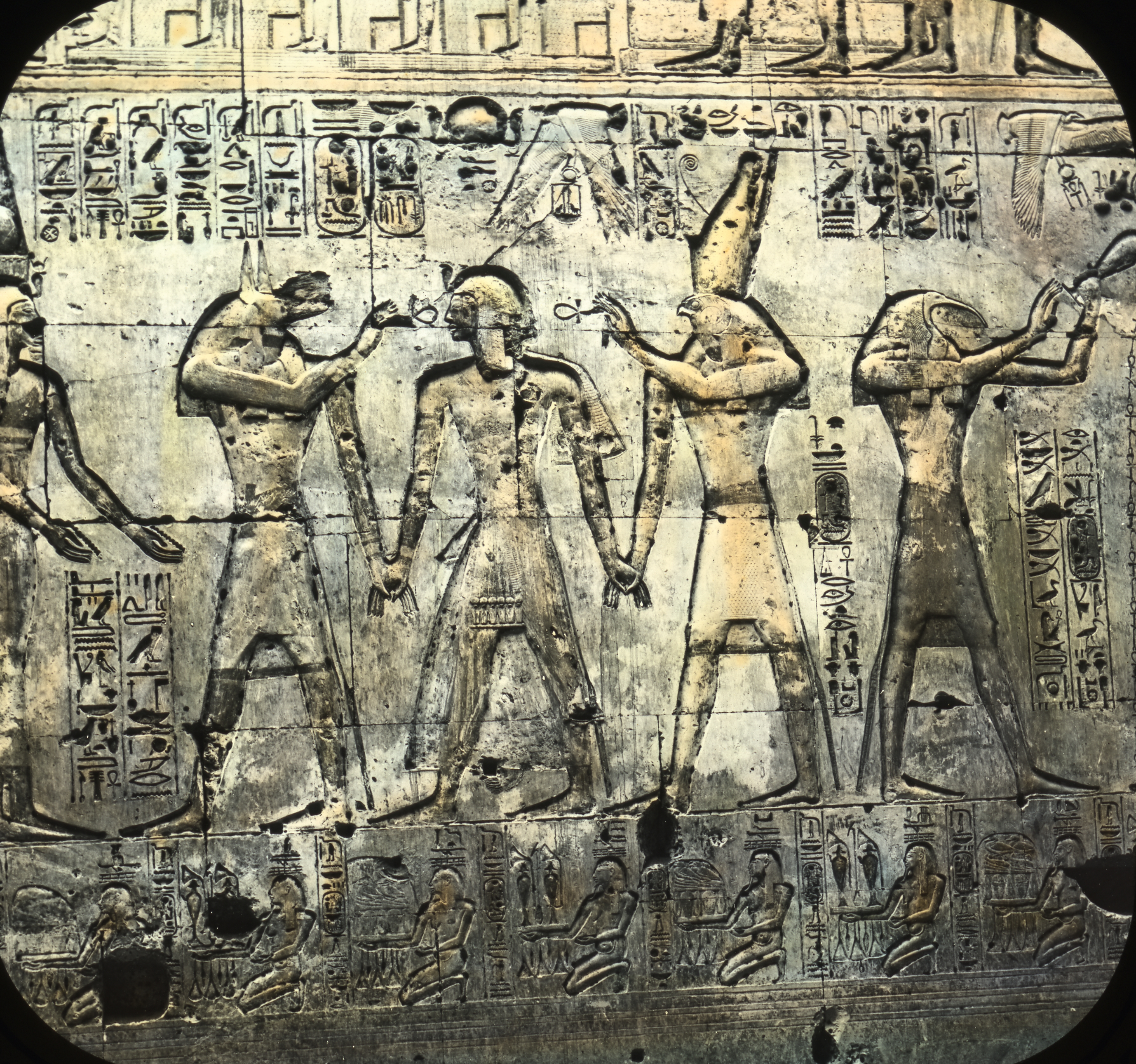 Lantern Slide Collection: Views, Objects: Egypt. Abydos [selected images]. View 01: Egypt - Memnonium of Seti I. Wall Inscriptions, Abydos., n.d., T. H. McAllister, Manufacturing Optician. 49 Nassau Street, New York. Brooklyn Museum Archives (S10/08 Abydos, image 9877).